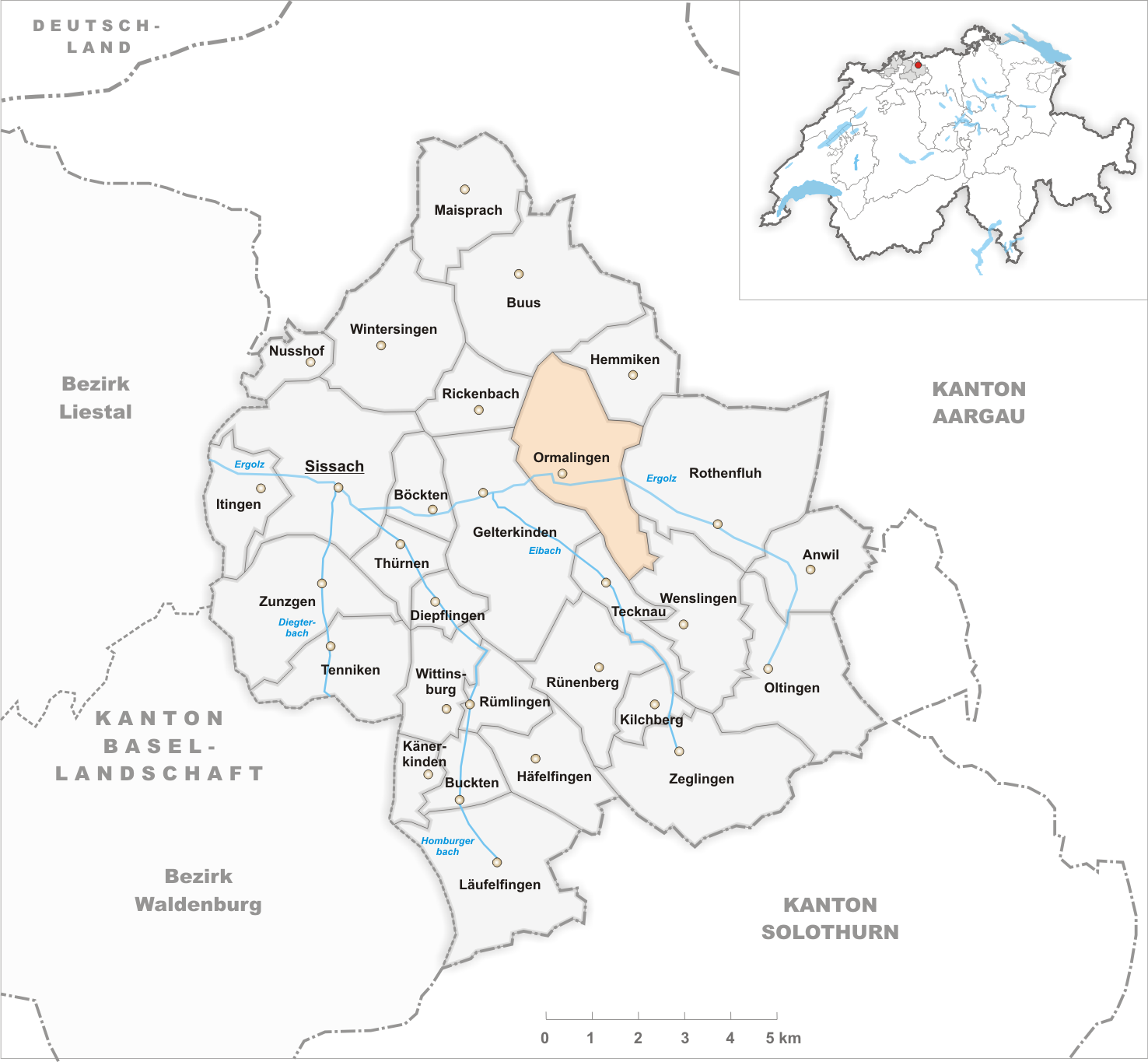 Municipality Ormalingen